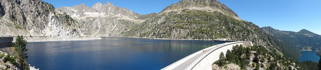 Cap-de-Long Dam, Hautes-Pyrénées, France